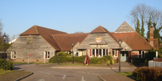 Barn at Jordan's, Vancouver Drive, Langley Green, Crawley, West Sussex, England: a former barn with weather-boarding and some original (17th-century) roof beams. Formerly a social club; now a pub. [ Listed at Grade II by English Heritage (IoE code 363379)